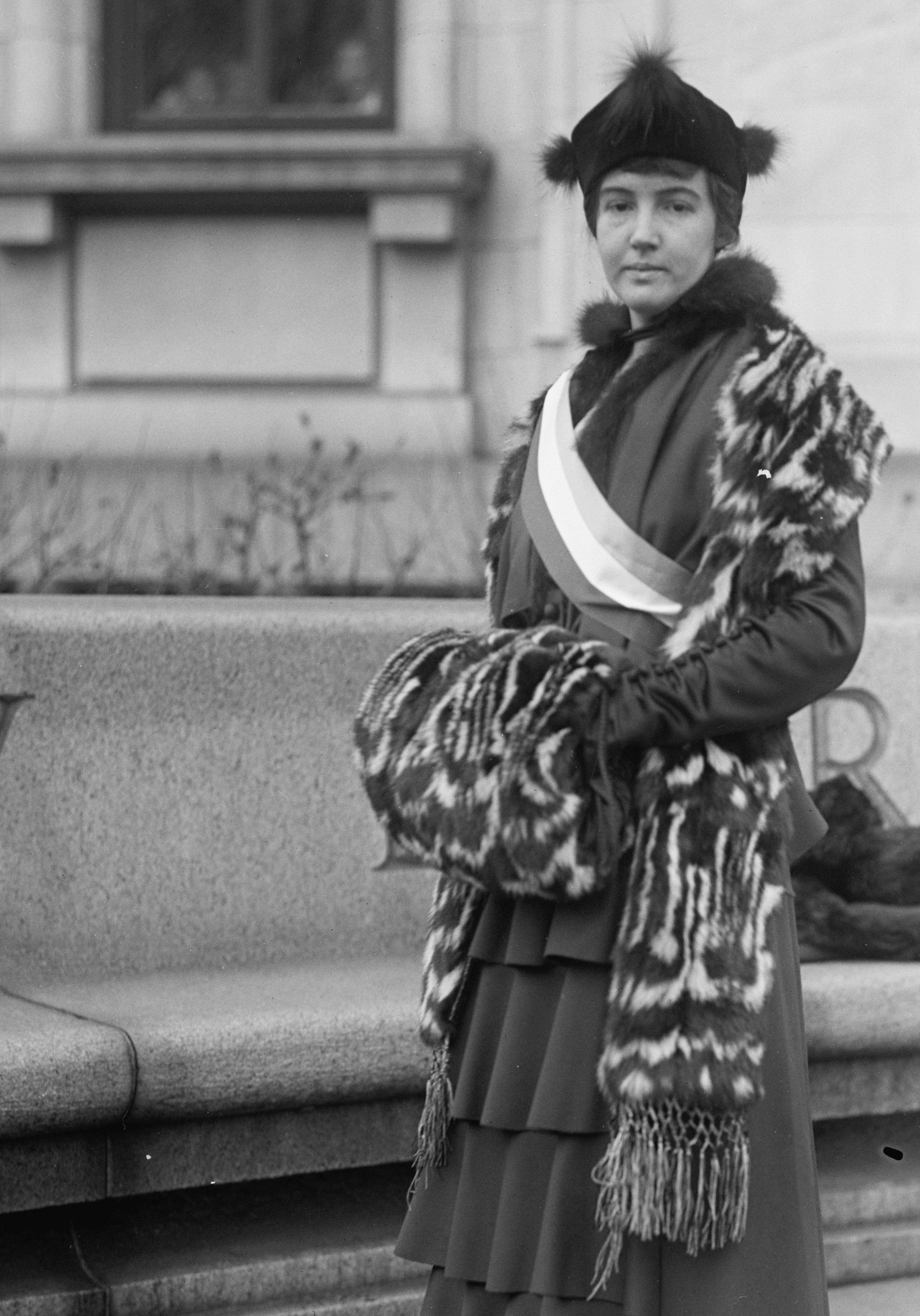 Title: HILL, ALBERTA. WOMAN SUFFRAGETTE Abstract/medium: 1 negative : glass ; 5 x 7 in. or smaller